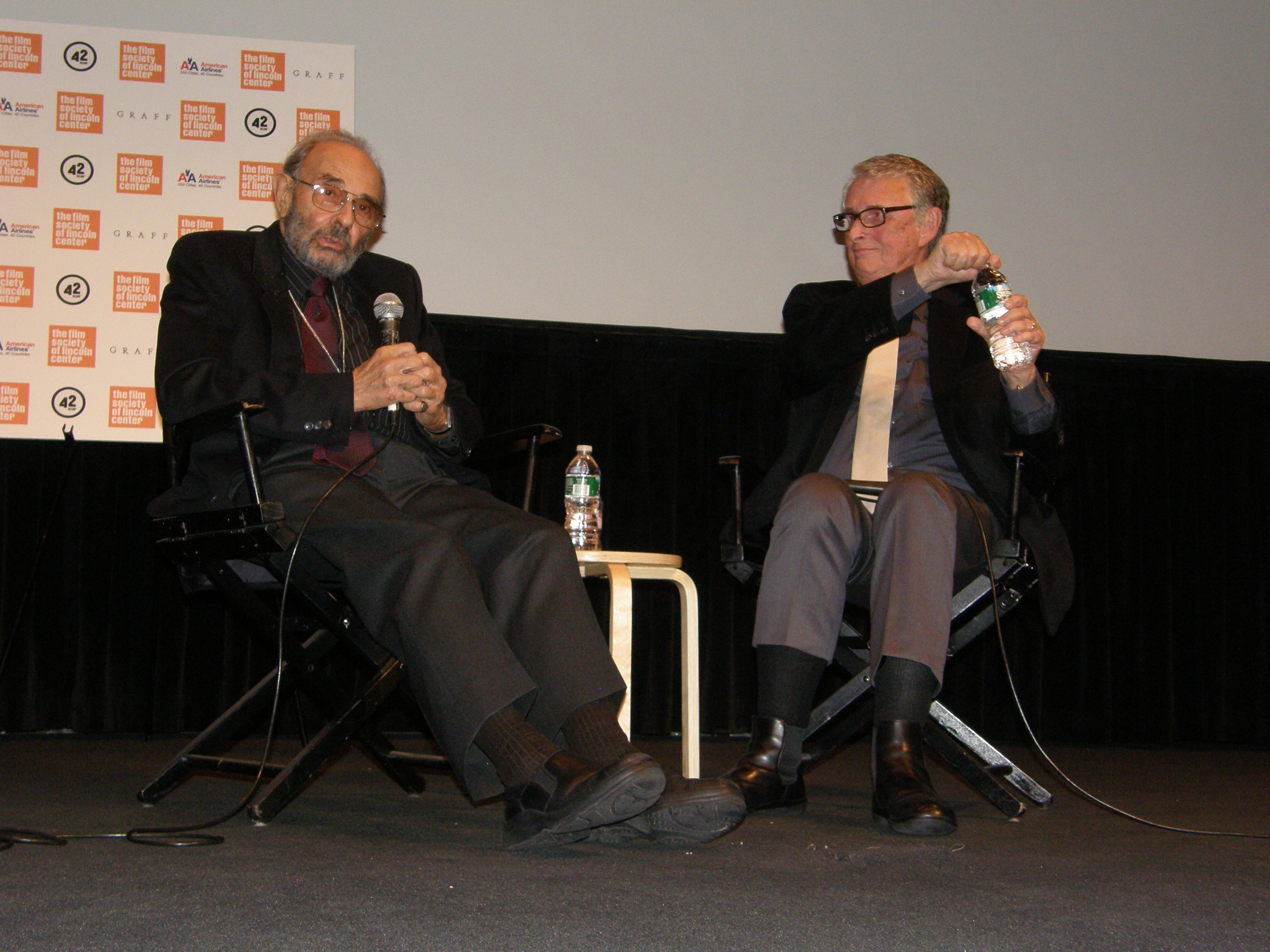 Film Society of Lincoln Center's Retrospective; Q&A after screening of FUNNY FACE.